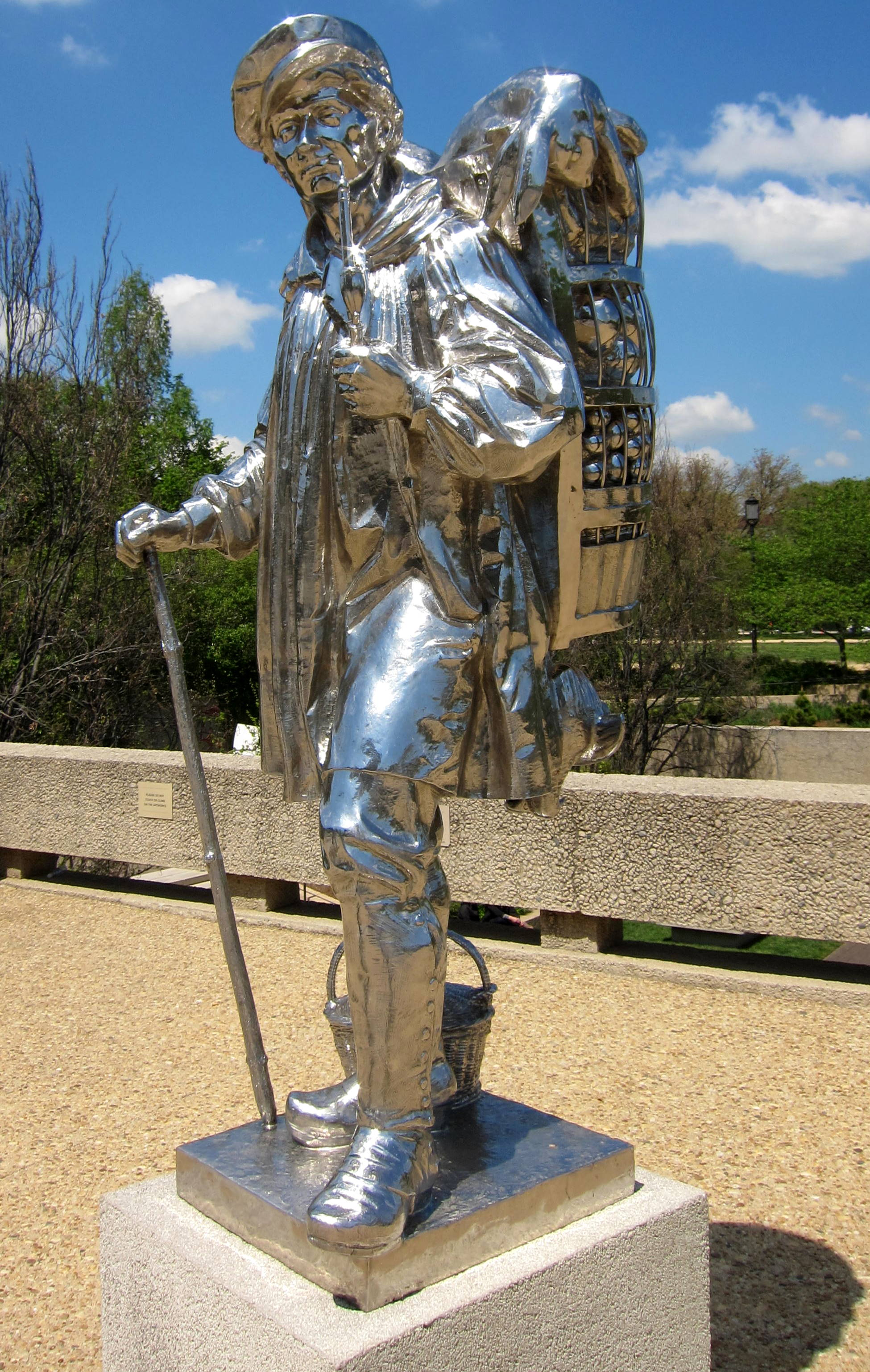 stainless steel sculpture by artist Jeff Koons, located in the Hirshhorn Museum's Sculpture Garden, on the National Mall in Washington, D.C.